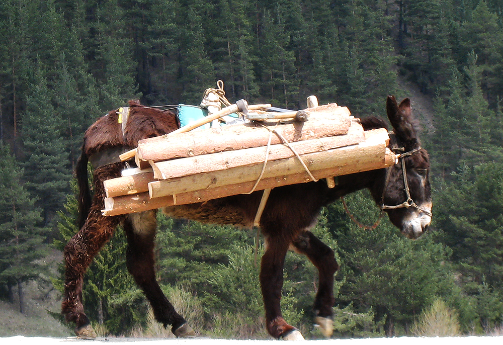 А woodcutter donkey, carrying firewood in Rila mountain, Bulgaria